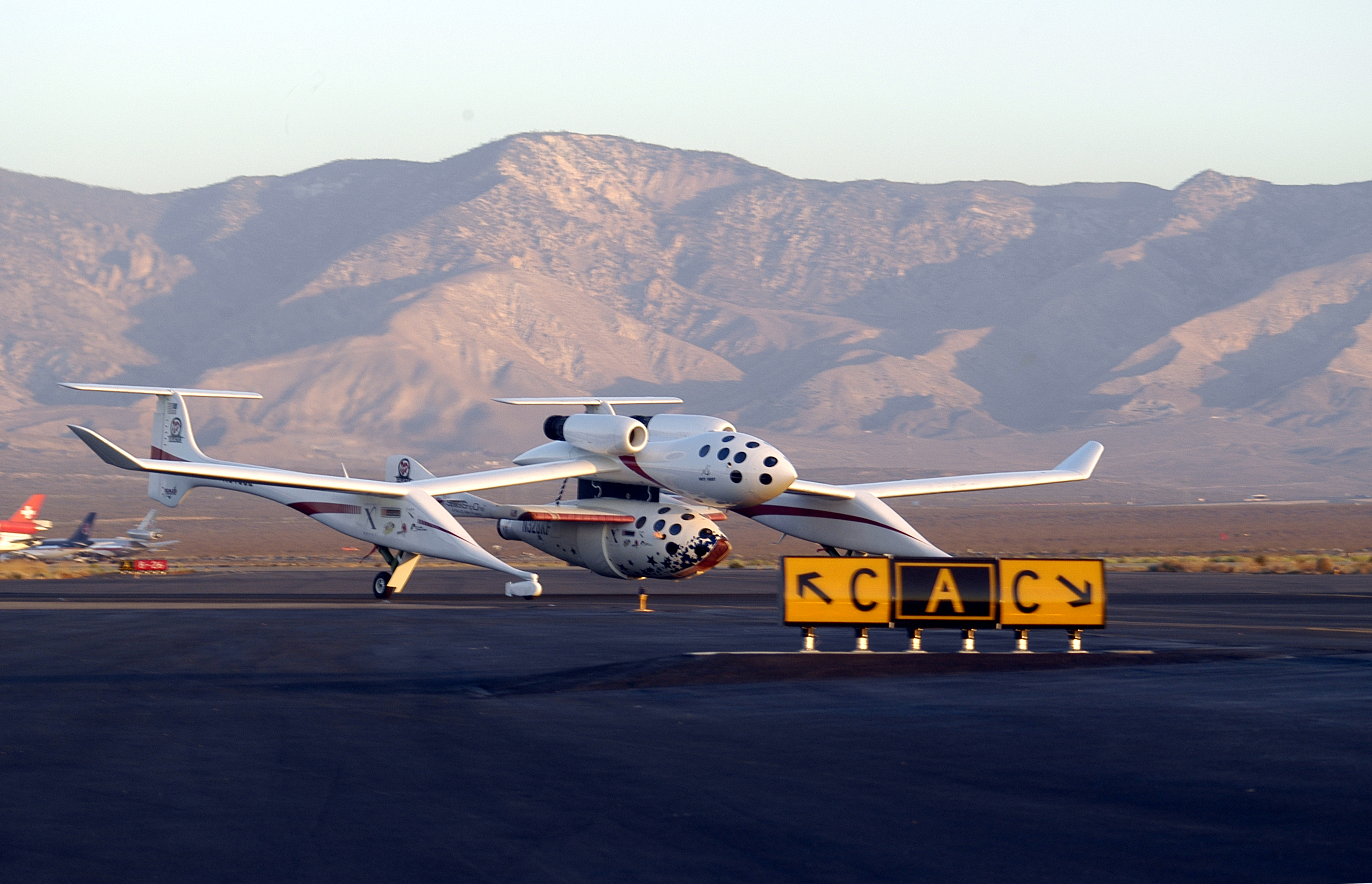 SpaceShipOne Mike Melvill waves photo D Ramey Logan